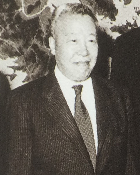 Defense Minister Yu Ta-wei